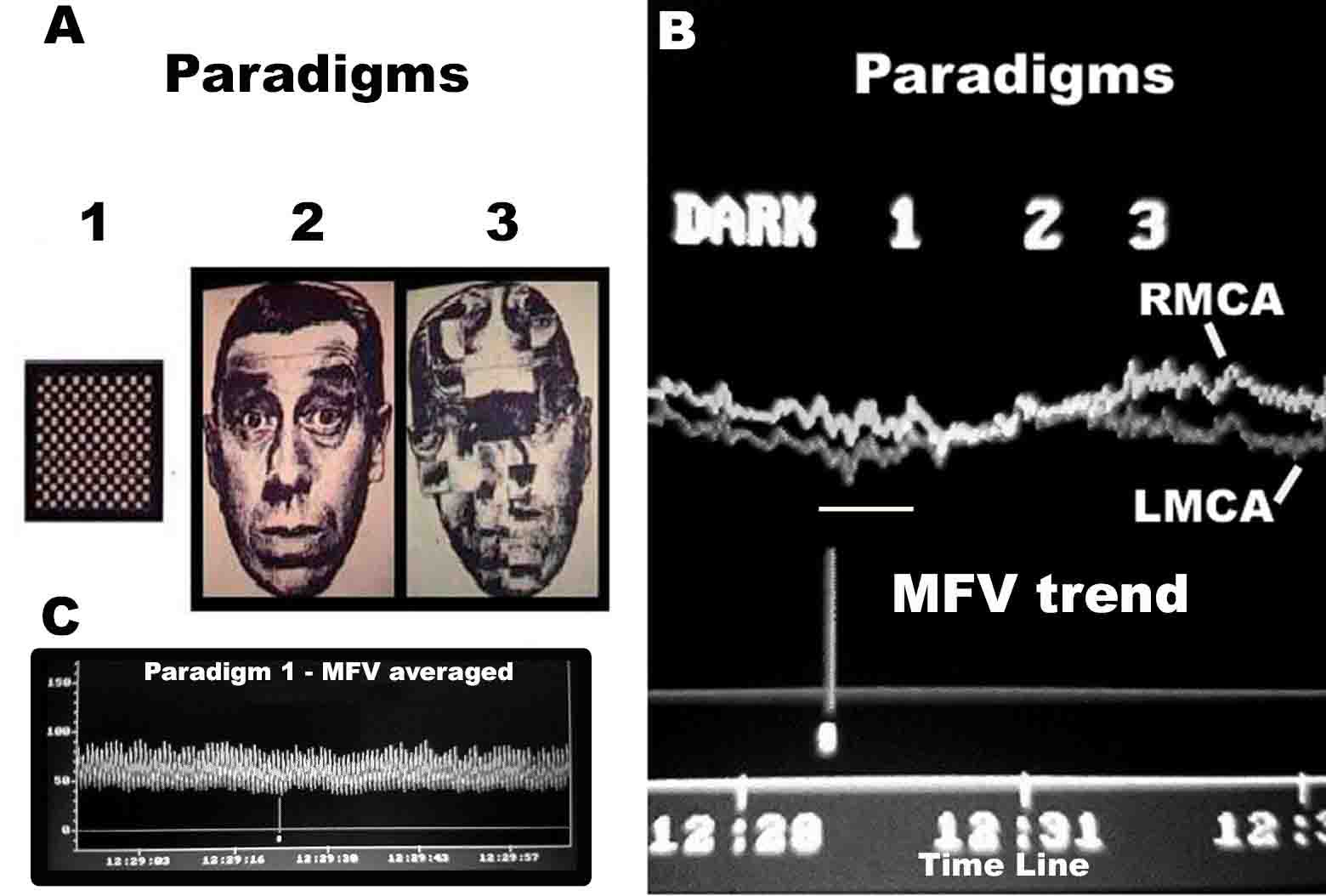 Paradigms for functional transcranial Doppler Spectroscopy study of cerebral lateralization for faces and object.